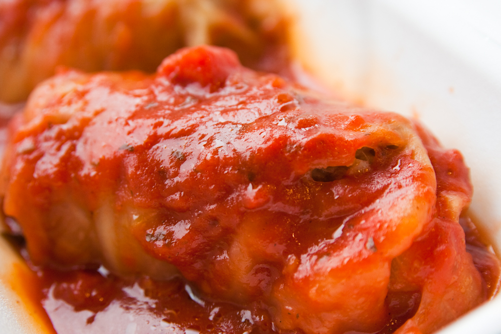 Gołąbki are also referred to as golumpki, golabki, golumpkies or golumpkis. Similar Eastern European cabbage roll variations are called: holubky (Slovak), töltött káposzta (Hungarian), holubtsi (Ukrainian), golubtsy (Russian), holishkes (Jewish/Yiddish), balandėliai (Lithuanian), kohlrouladen (German) or sarma. Description from Flickr: I had Stuffed Cabbage or Golomki from the Wealthy Station in Grand Rapids.